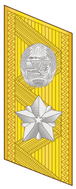 Konghwaguk Wonsu - collar insignia